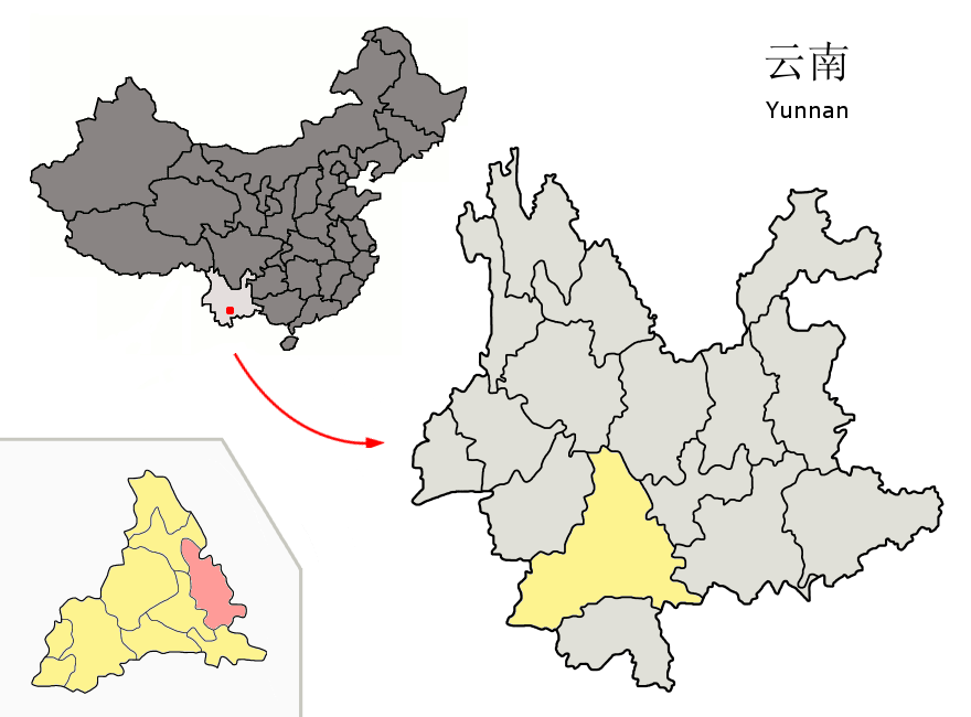 Location of Mojiang County (pink) and Pu'er Prefecture (yellow) within Yunnan province of China Map drawn in september 2007 using various sources, mainly : Yunnan province administrative regions GIS data: 1:1M, County level, 1990 Yunnan Counties map from